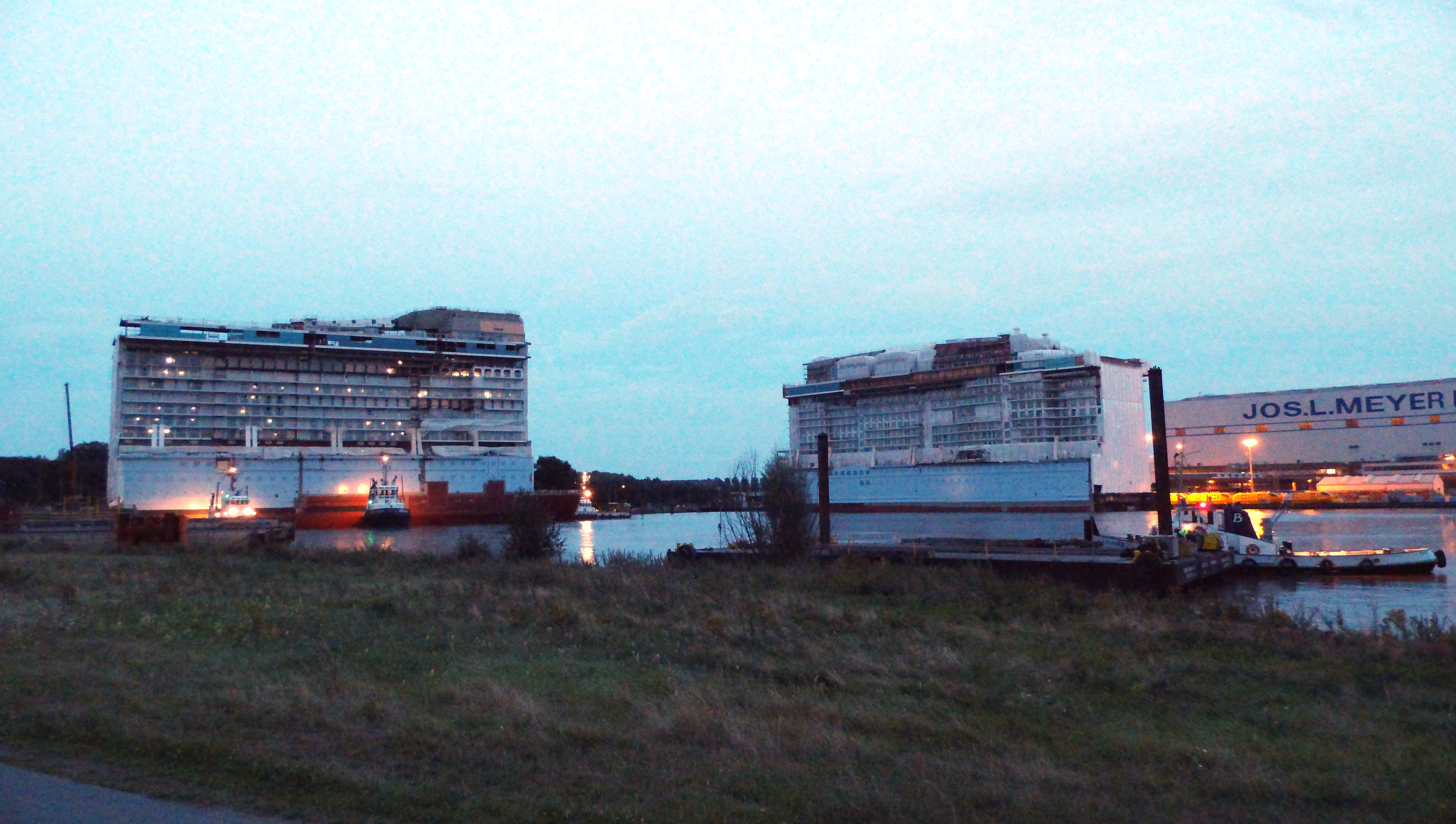 Both "Anthem of the Seas"-Sections floated out at shipyard Meyer Werft, Papenburg, Germany